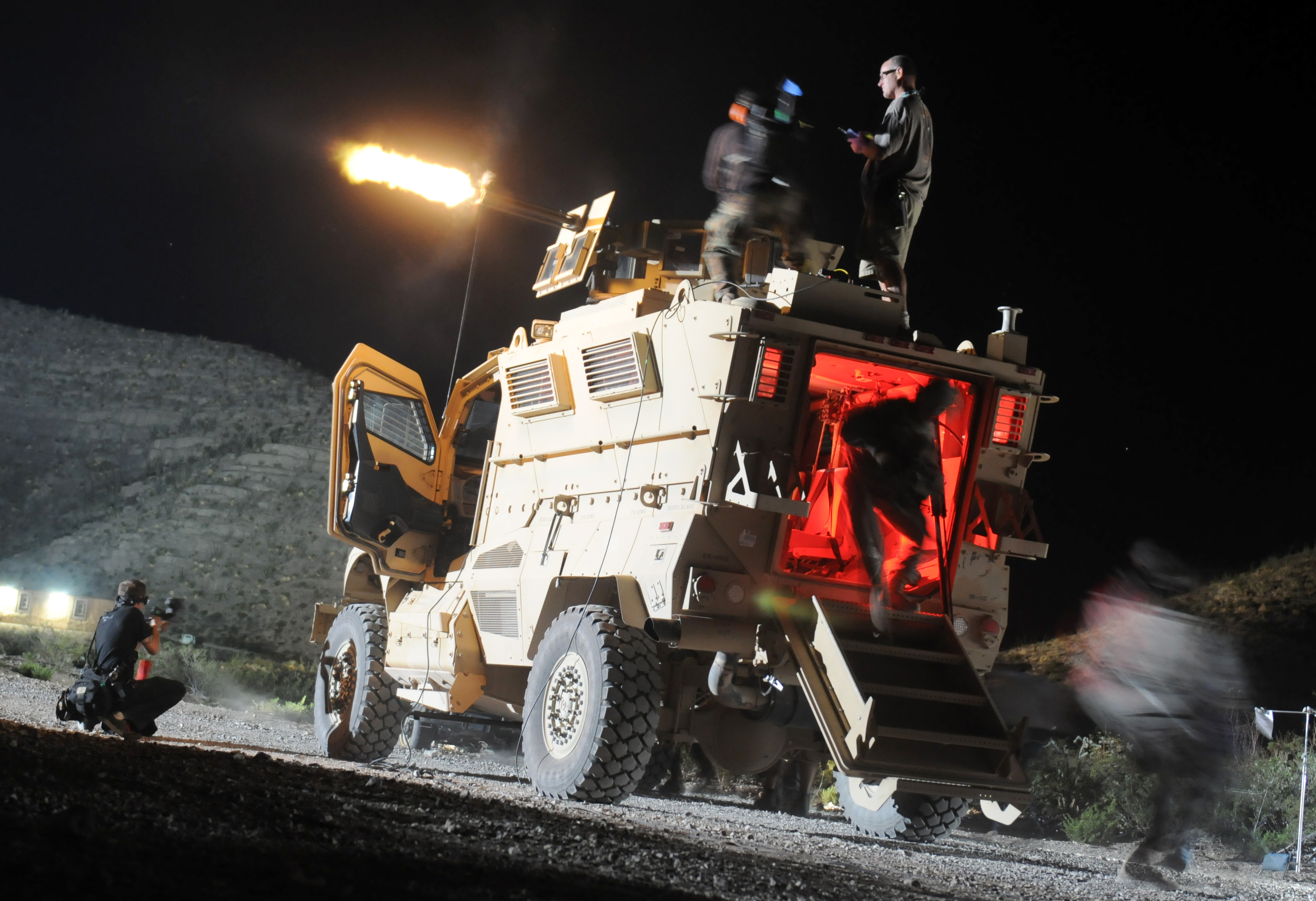 During a late night on set, production crews from the motion-picture “Fort Bliss” film a scene with Michelle Monaghan and Soldiers assigned to Troop B, 2nd Squadron, 13th Cavalry Regiment, 4th Brigade Combat Team, 1st Armored Division, at the Waigali training village Oct. 9, which is located about 45 minutes east of the installation. In the scene, Staff Sgt. Swann (Monaghan) dismounts an MRAP to provide medical care after the lead vehicle in their patrol was attacked by and IED. The movie, which also stars Ron Livingston (Office Space), began filming at Fort Bliss in late September and closed with its “final wrap” Oct. 10.